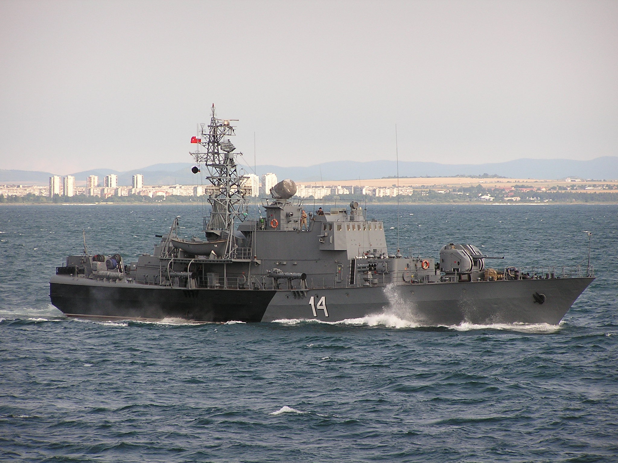 Bulgarian small anti-submarine ship project 1241.2E Bodri in Burgas.